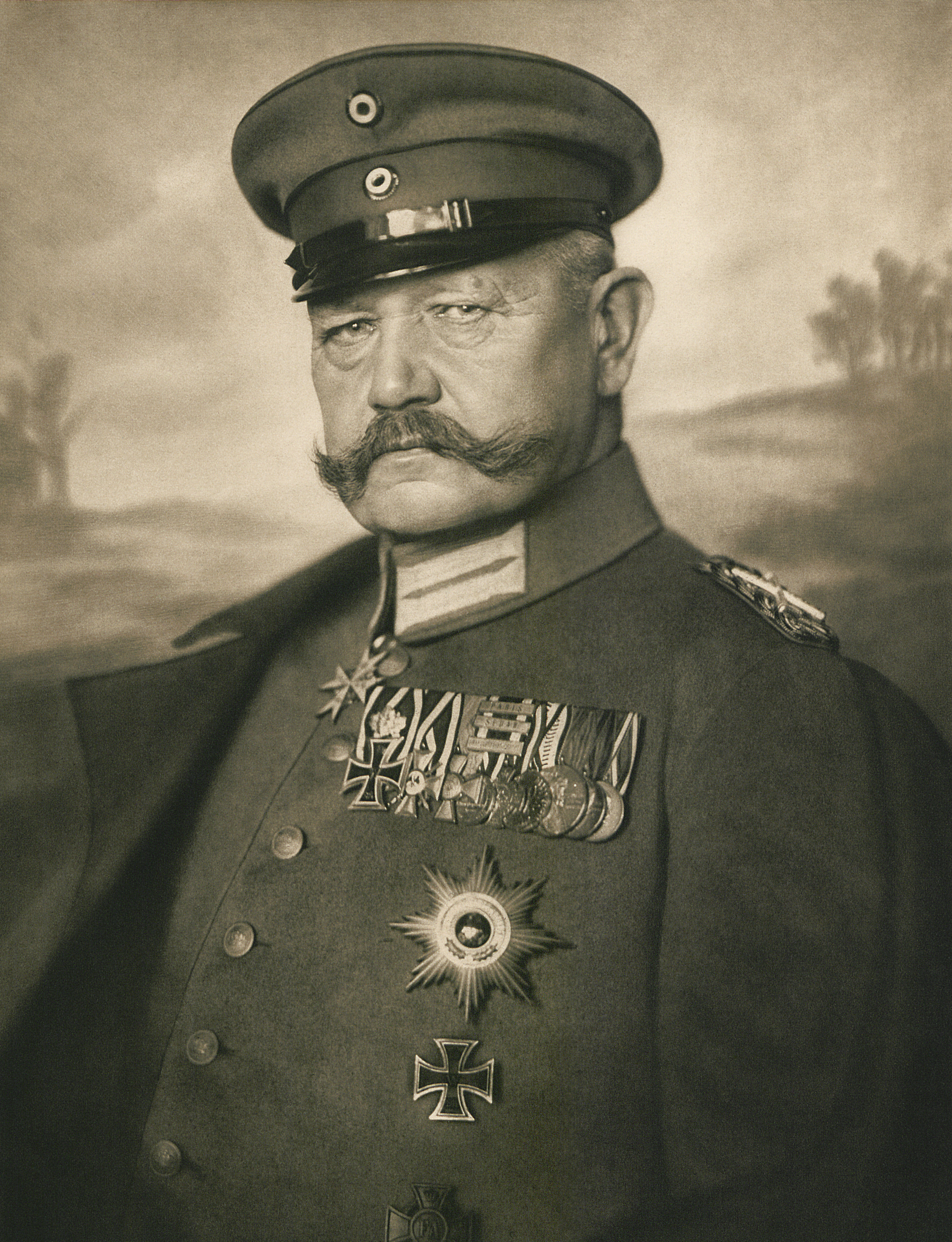 Reproduction (likely a photogravure) of a 1914 photograph of Paul von Hindenburg.